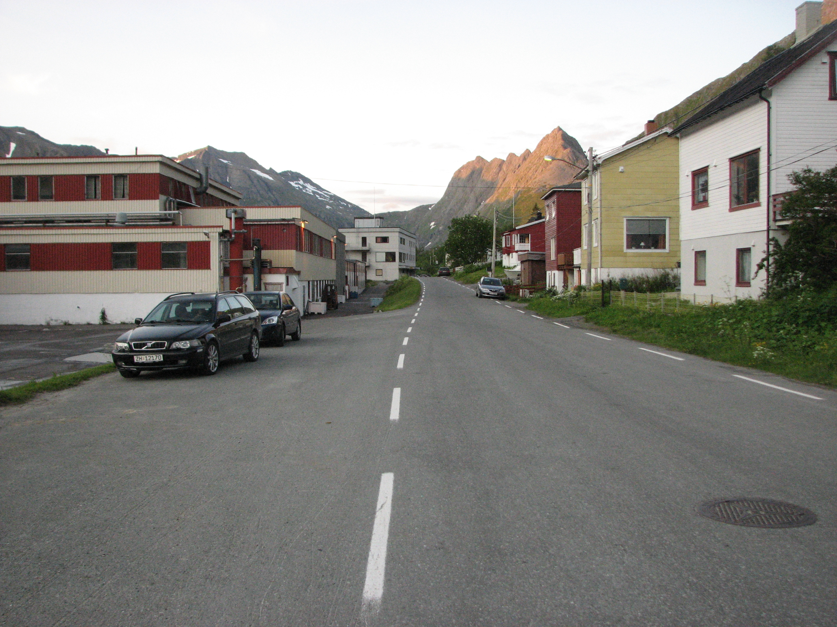 Gryllefjord, Torsken municipality, Norway